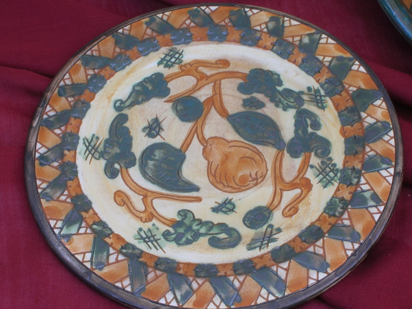 Pot 25 cm in diameter with leaves and fruits